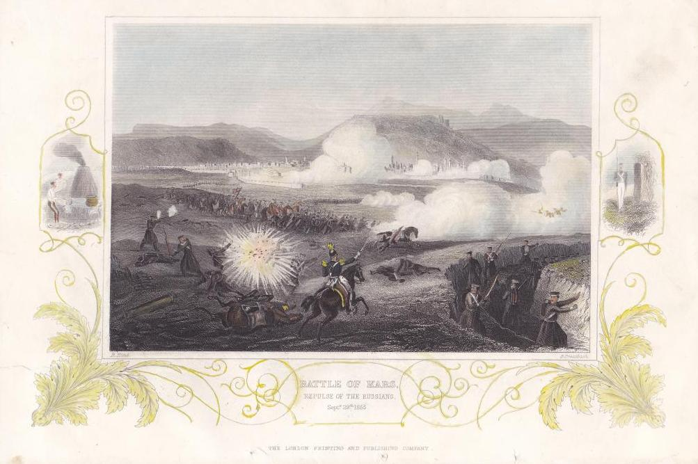 Battle of Kars. Repulse of the Russians. Sept.29th 1855. Ref: 9502 An antique line engraving by G. Greatbach after R. Hind. Approx 18cms by 12.5cms.